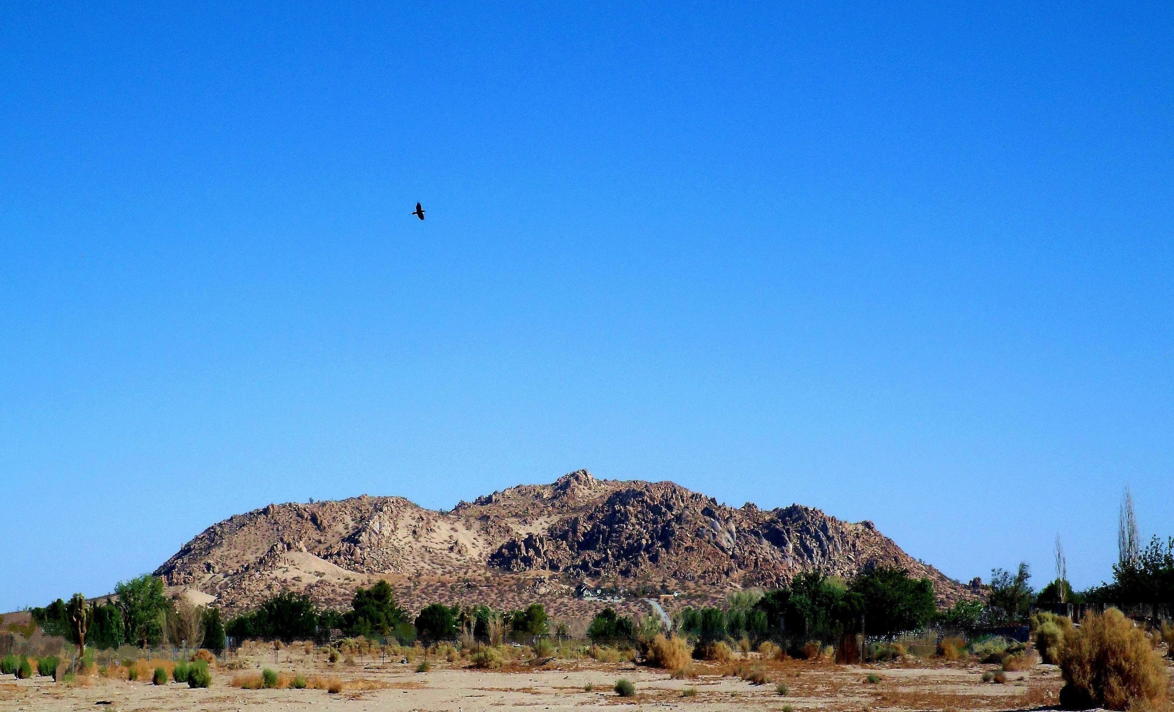 Photo of a Saddleback buttes, located in the Antelope Valley with the Antelope Valley Indian Museum situated at center of image